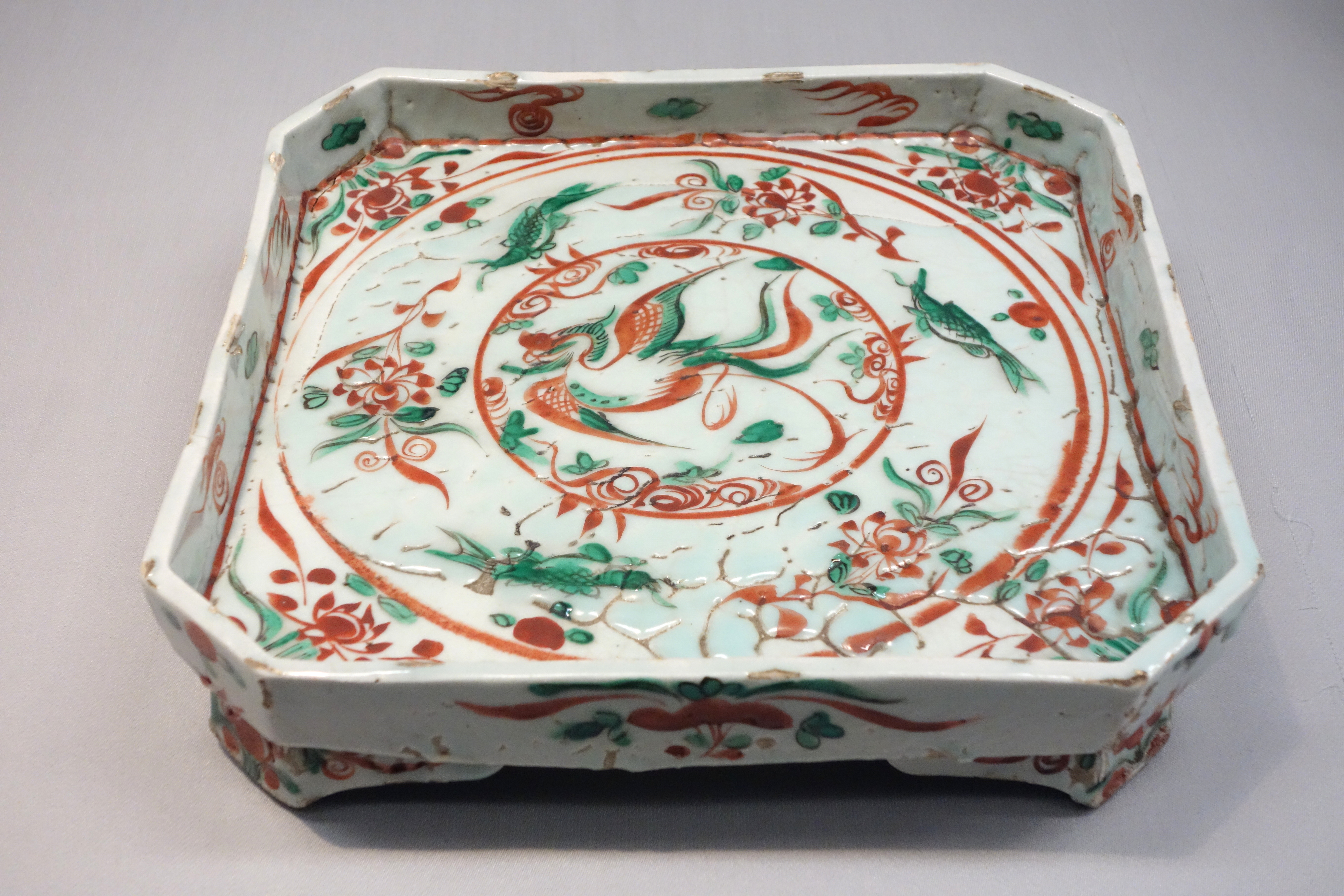 Exhibit in the Tokyo National Museum, Tokyo, Japan. This artwork is old enough so that it is in the public domain.